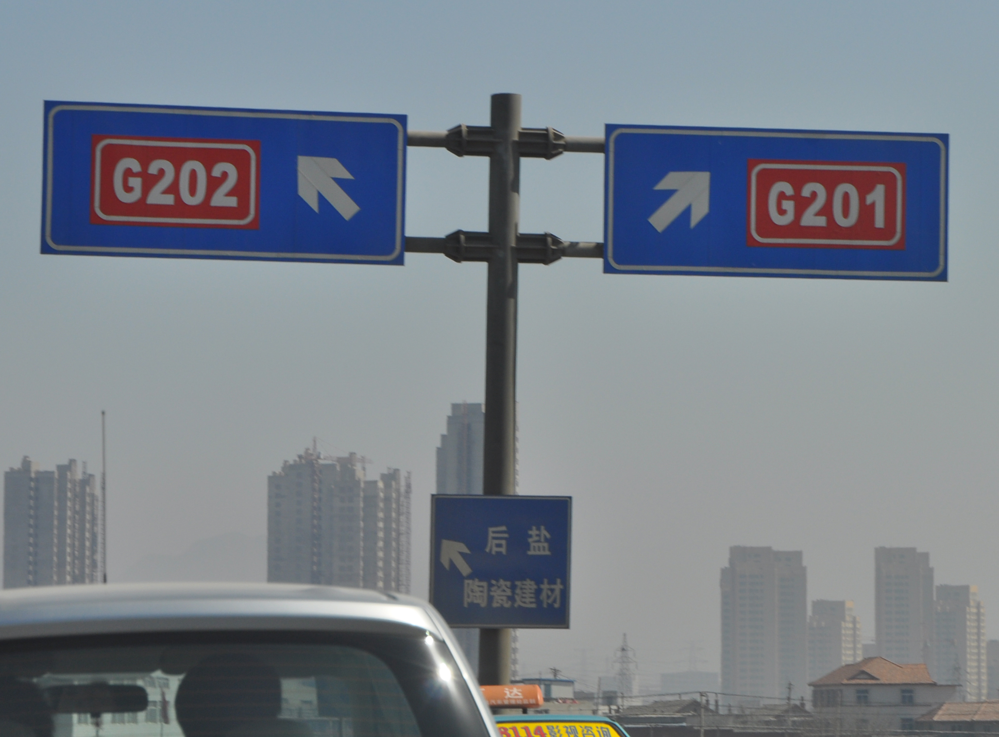 Chinese National Highway G201 crossing G202 in Dalian, China